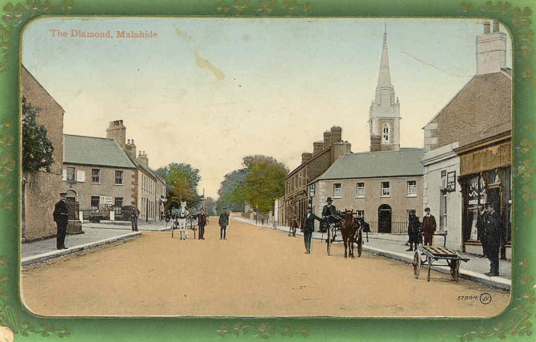 Malahide village, north County Dublin - The Diamond, the central point of the village, in the early 20th century.